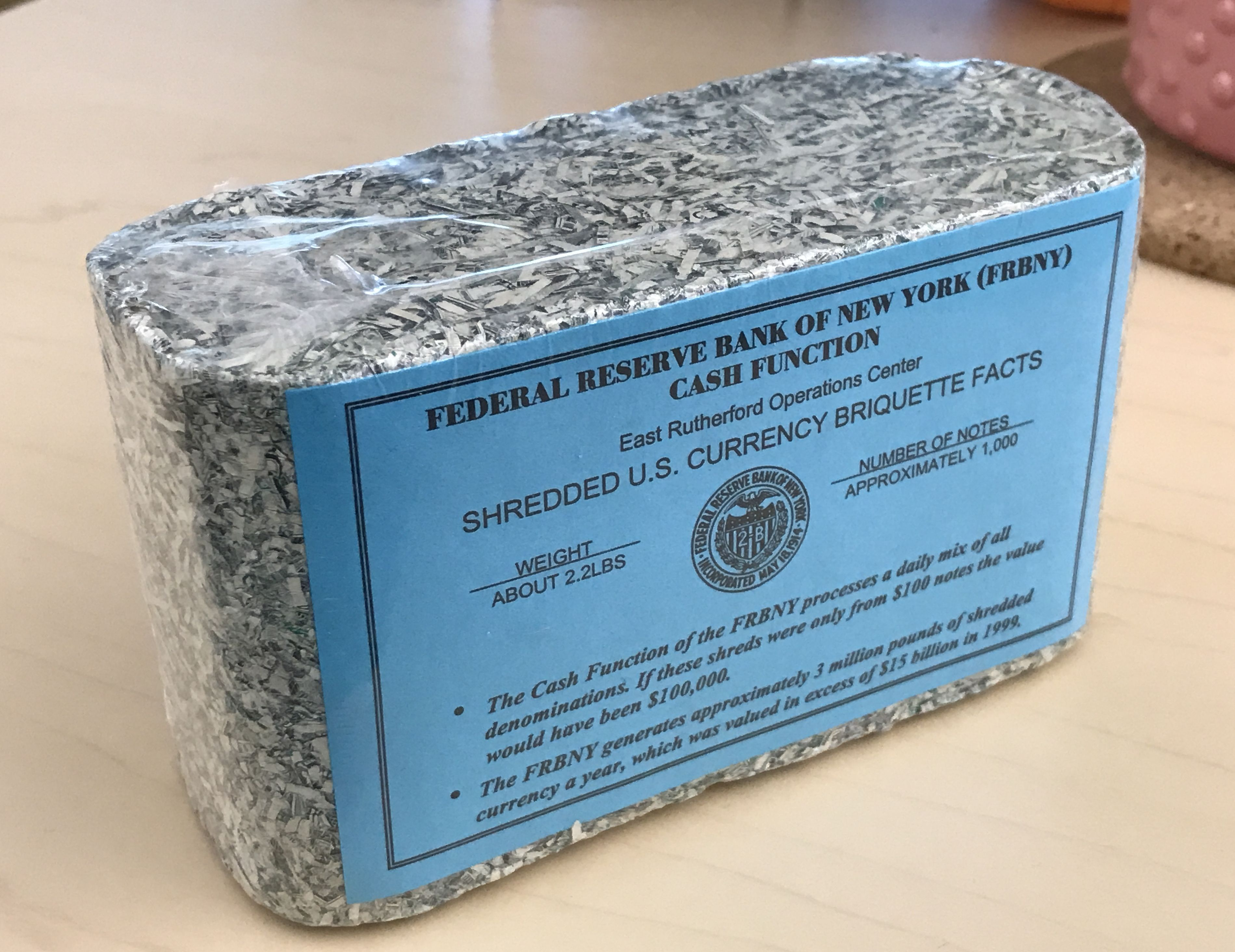 A briquetted bundle of shred US dollars (1,000 pieces, weight of 2.2 lbs) from the Federal Reserve Bank of New York after destruction due to unfitness for circulation. The shred size is approx. 1.5 x 16 mm².